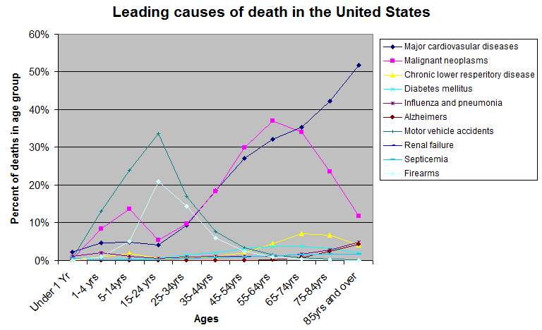 Causes of death by age group (see List of causes of death by rate)